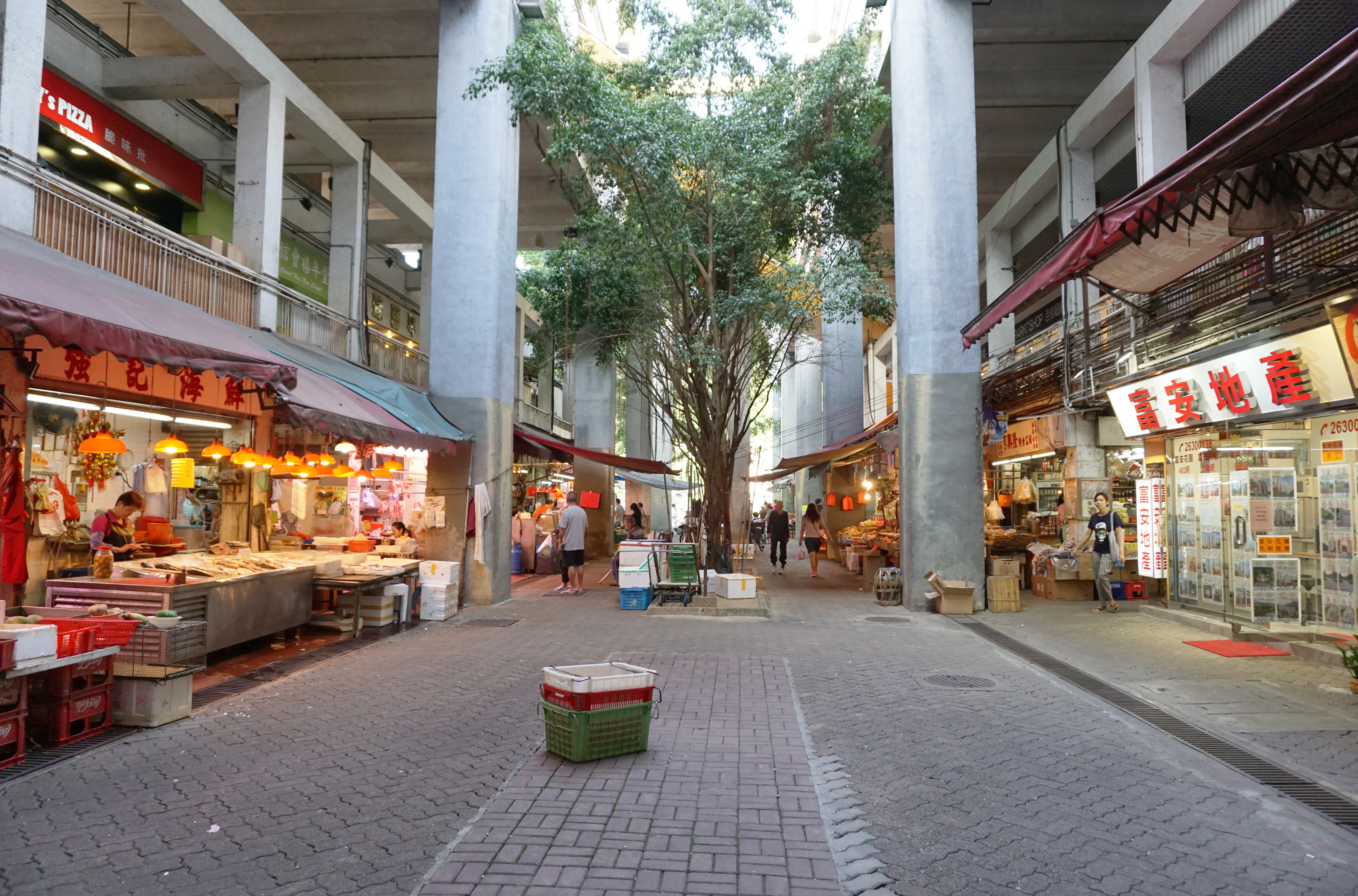 Chevalier Garden Market in Tai Shui Hang, Hong Kong.